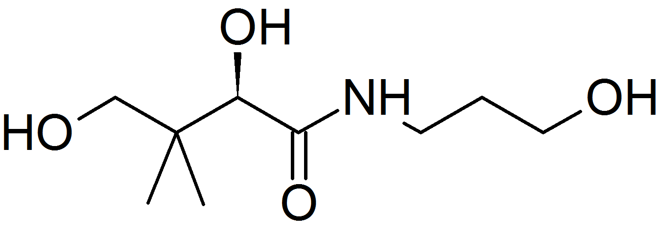 Structure of panthenol